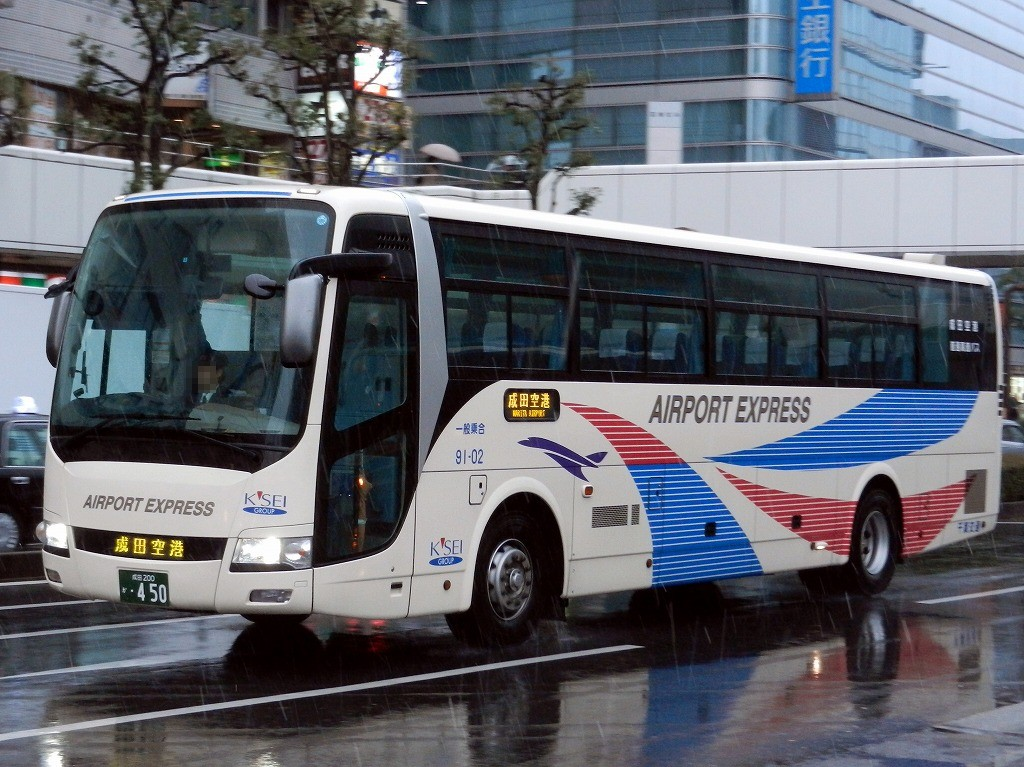 Chiba Kotsu Mitsubishi Fuso Aero Ace (LKG-MS96VP) for Narita International Airport Limousine Bus ("ON liner" Narita Airport-Omiya)